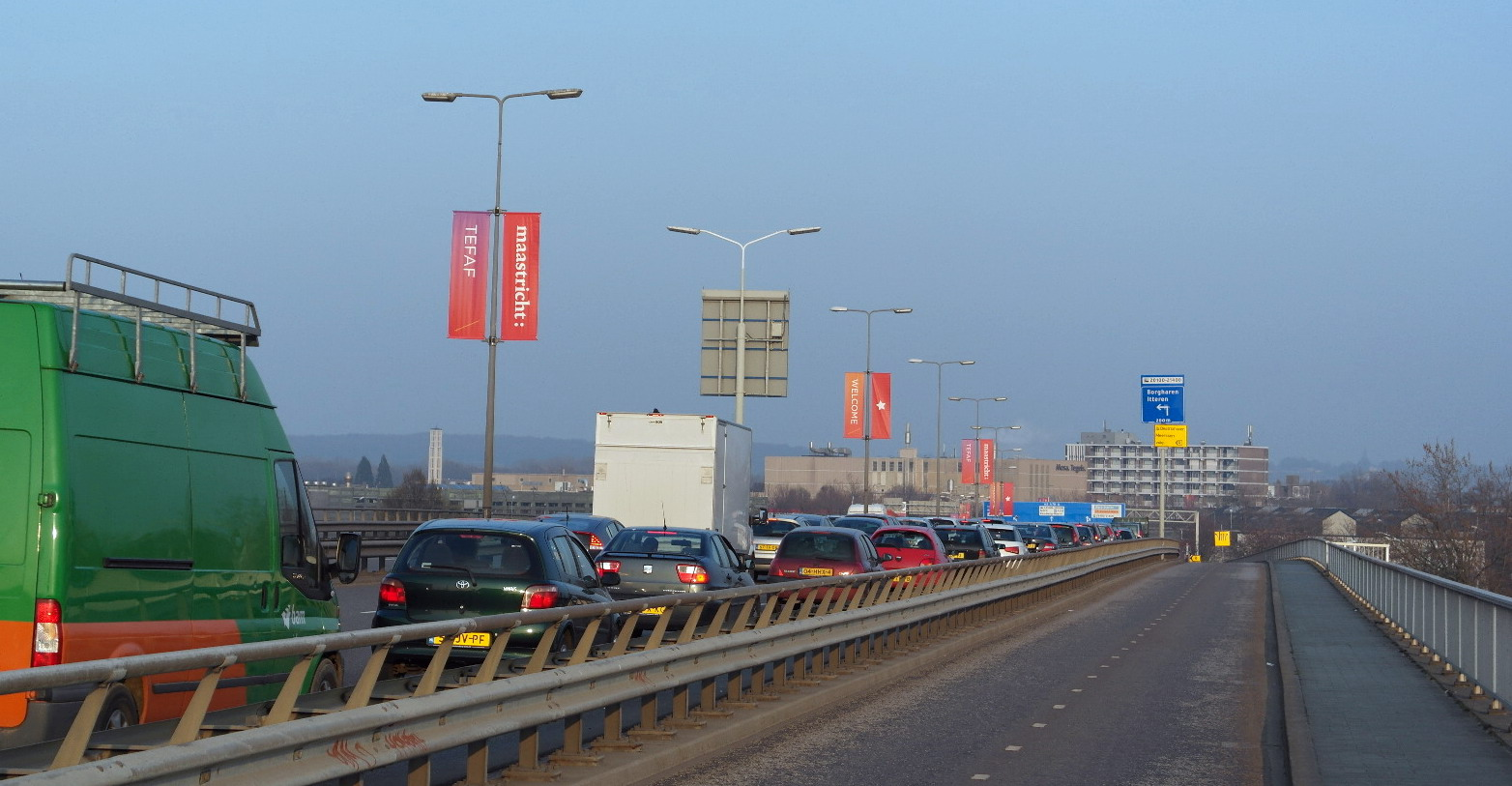 Maastricht, the Netherlands. View towards the east of Noorderbrug with TEFAF 2014 banners.